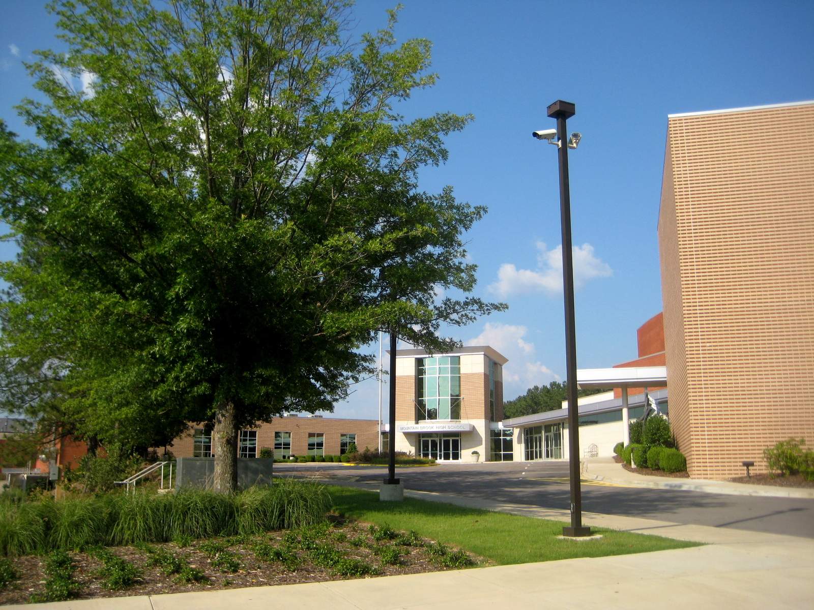 The front façade of Mountain Brook High School in 2010.